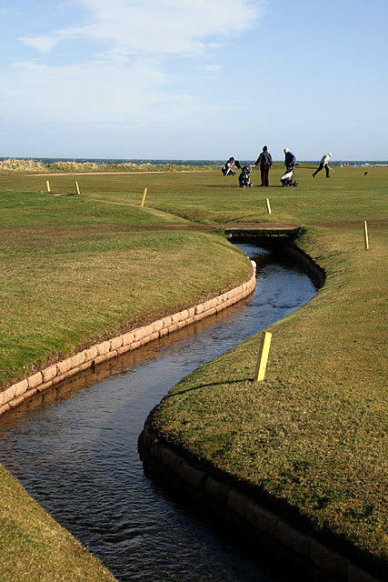 Dunbar Golf Course This is a water hazard crossing the 6th and 17th fairways, viewed on a very windy day at the East Links course. The blustery conditions can be judged by the golfer on the right chasing after his hat.